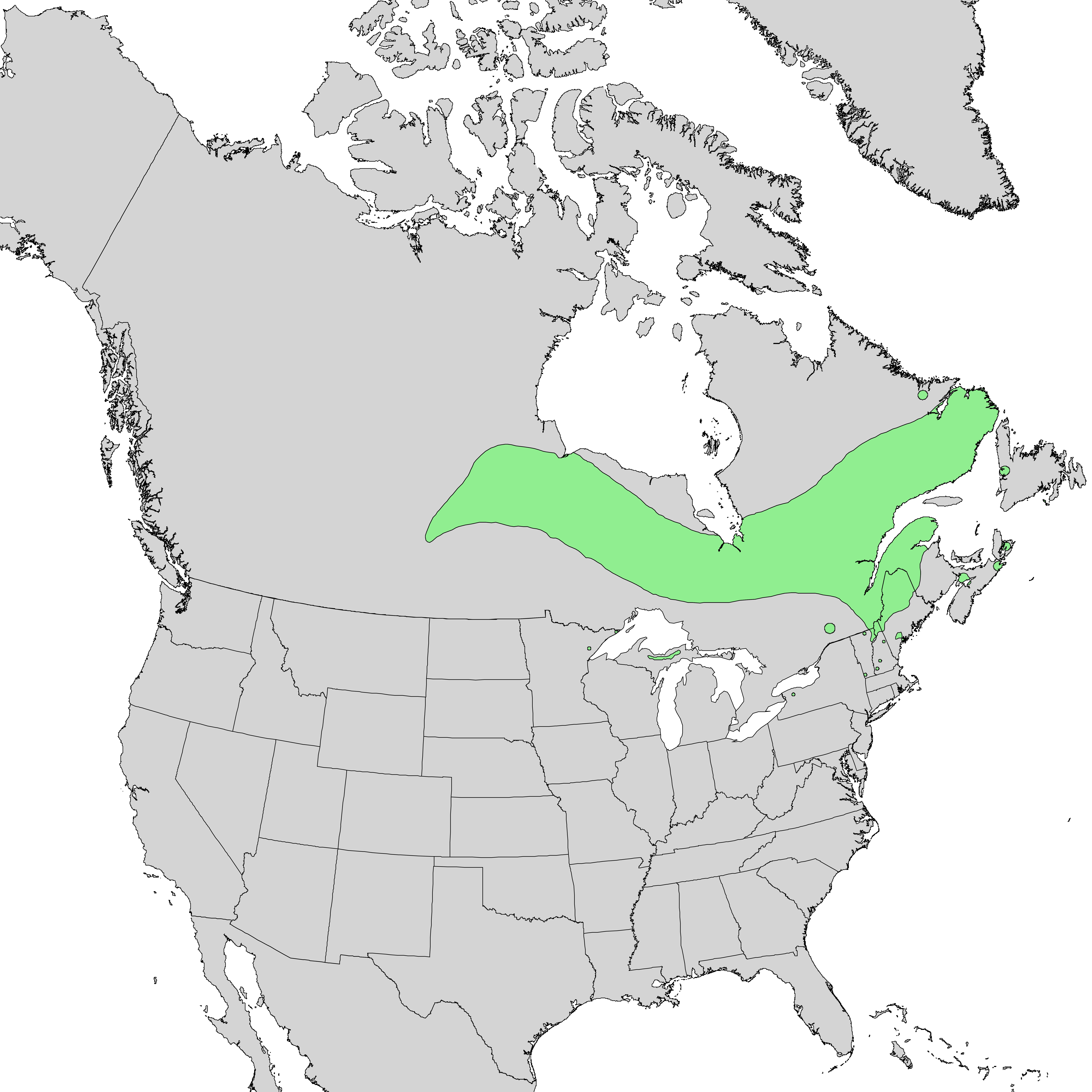 Natural distribution map for Salix pellita (satiny willow)